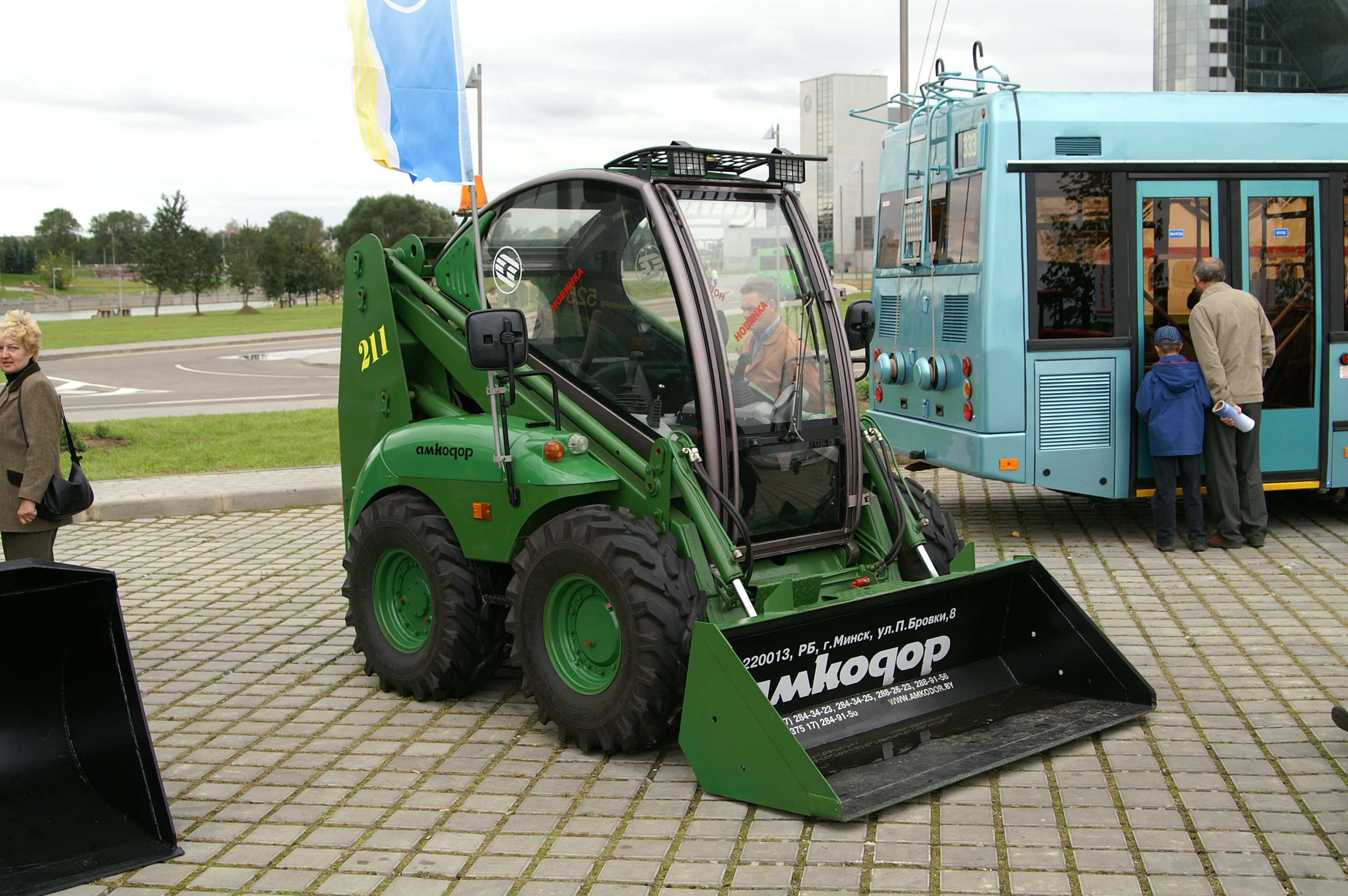 Amkodor skid-steer loader in Minsk